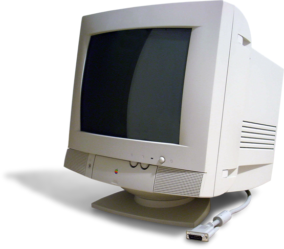 This is an image I took of my Apple Multiple Scan 14 Display.